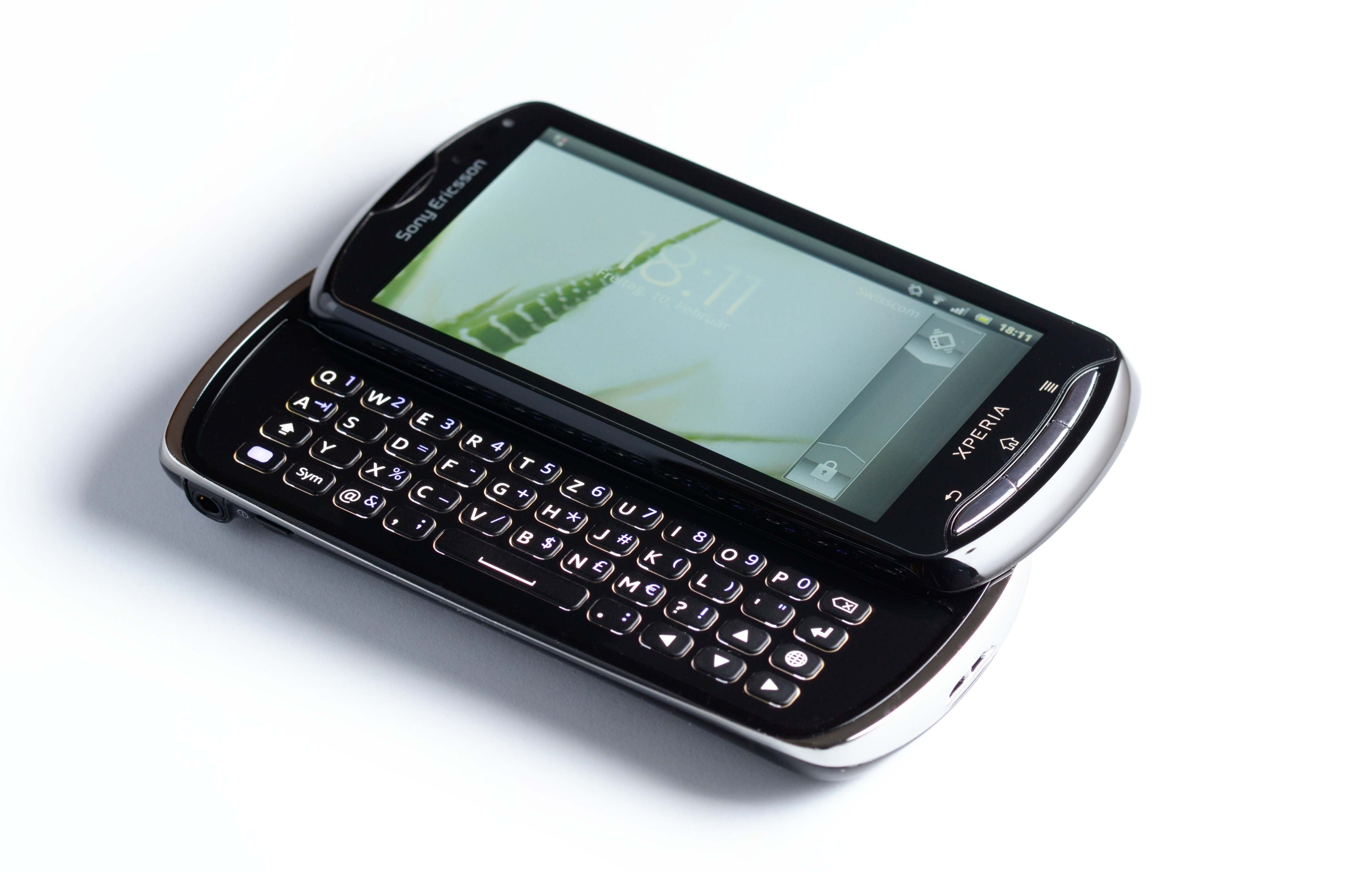 Sony Ericsson XPERIA Pro, with modified desktop background